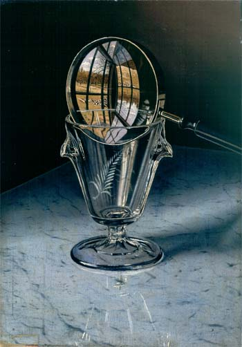 Still Life with magnifying glass. Oil on Canvas.